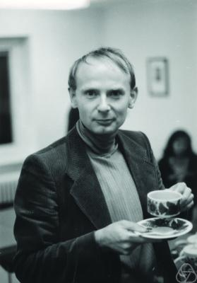 Mathematician Ingo Lieb in Erlangen, 1977.